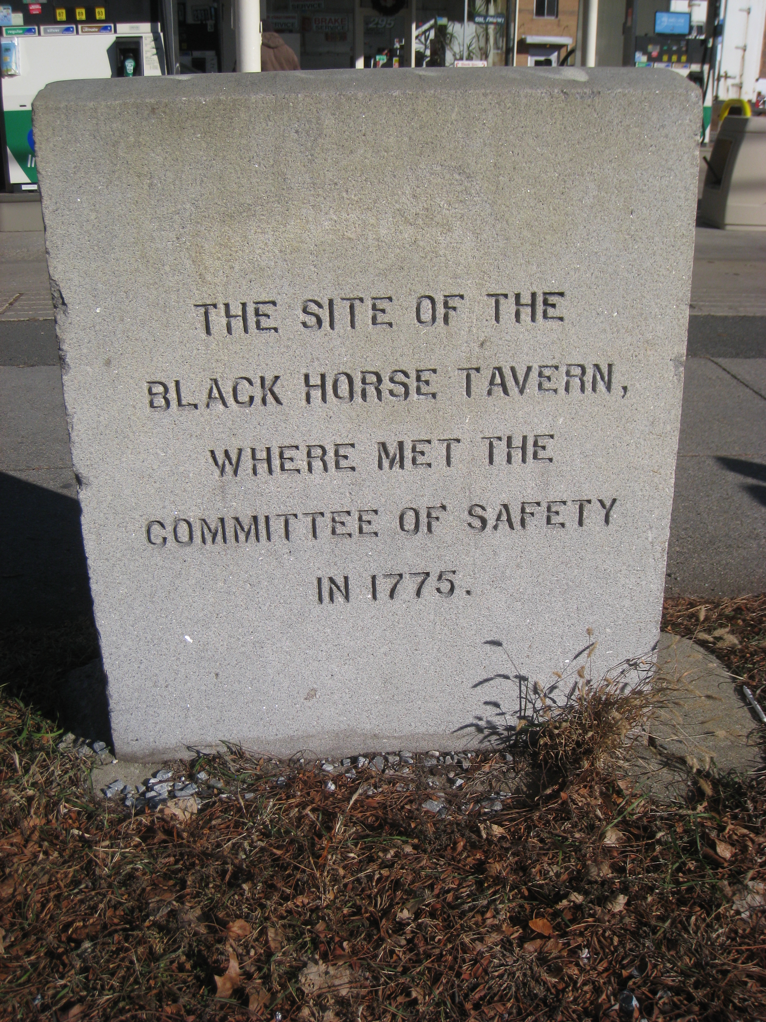 Black Horse Tavern monument, on Battle Road (Massachusetts Avenue), Arlington, Massachusetts, USA. Commemorates events in the first battle of American Revolution, generally known as the "Battles of Lexington and Concord", on April 19, 1775.